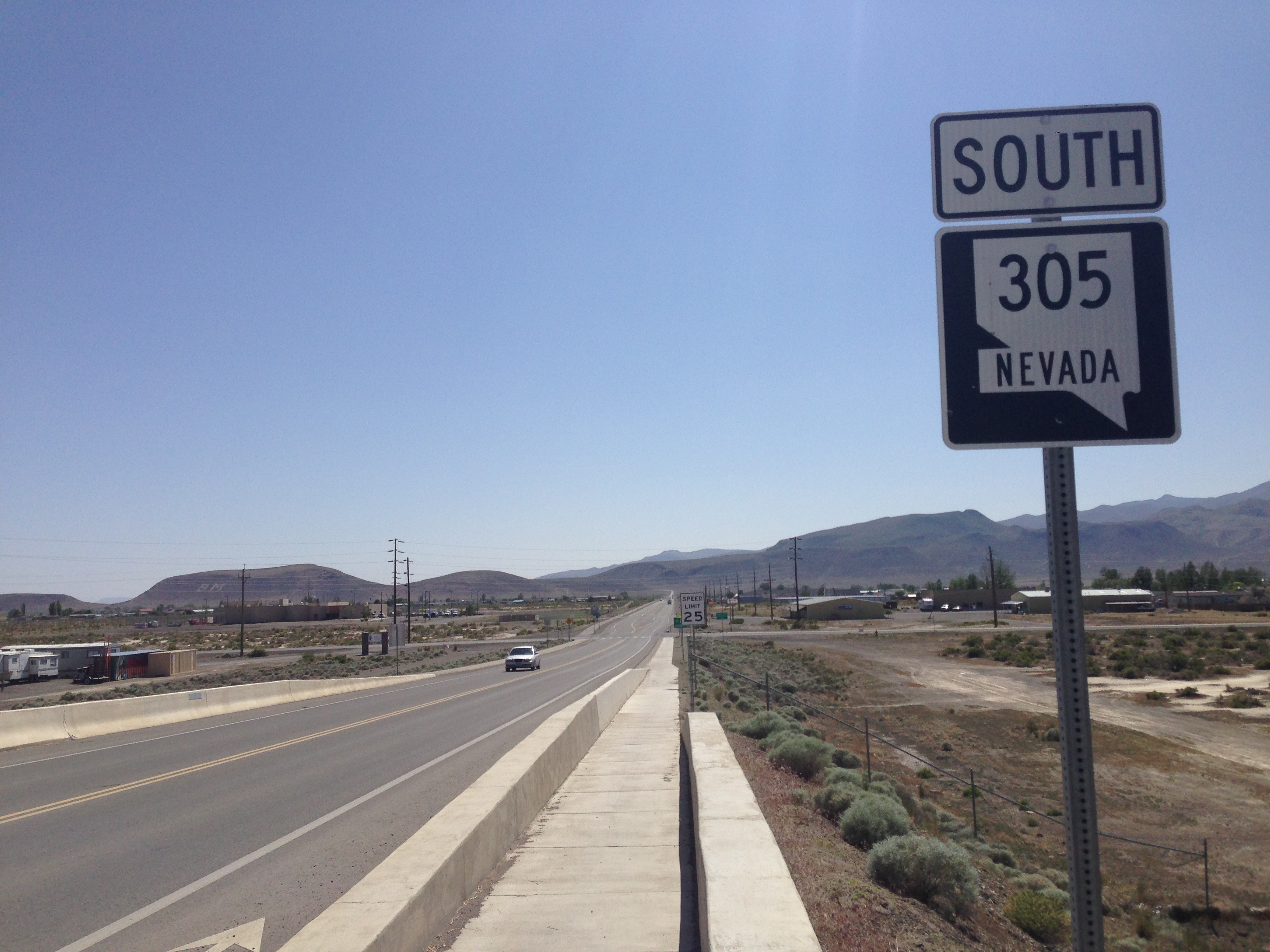 First reassurance sign on southbound Nevada State Route 305 in Battle Mountain, Nevada